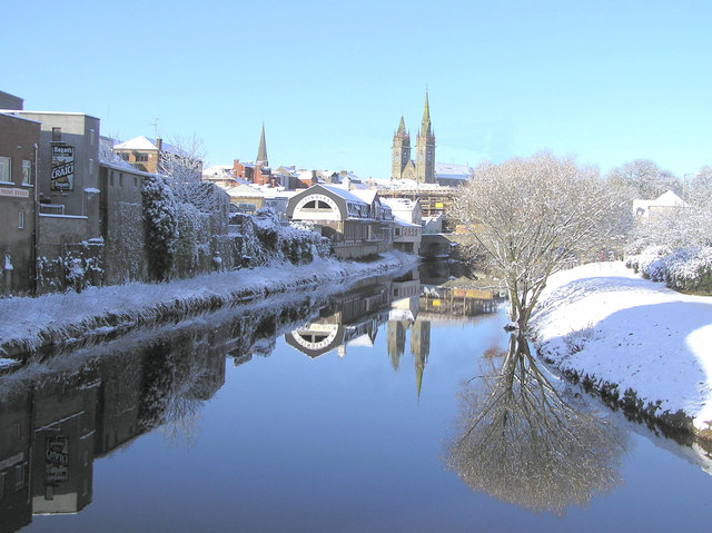 Snowfall along the River, Omagh